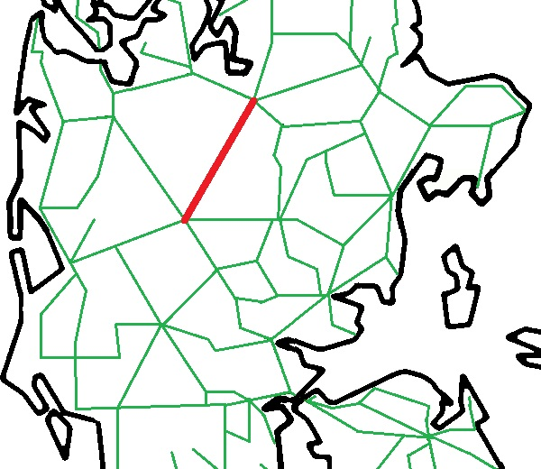 Map of railways in Middle Jutland in Denmark with the state railway Herning-Viborg banen in red.